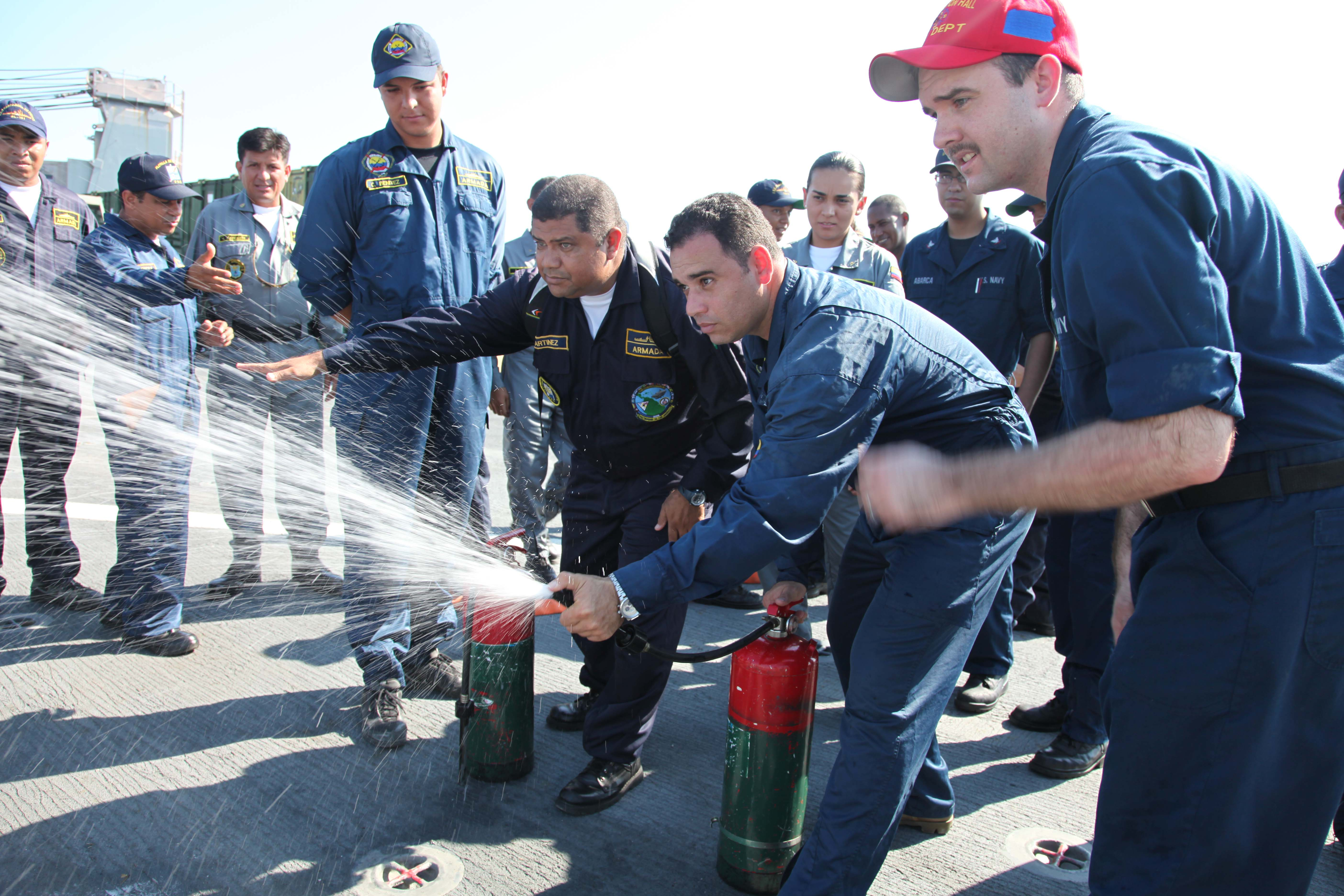 CARIBBEAN SEA (Feb. 3, 2011) Damage Controlman Daniel O'Connor acts as a safety as members of the Colombian coast guard demonstrate the use of an aqueous film forming foam fire extinguisher as part of a damage control exercise aboard the Whidbey Island-class amphibious dock landing ship USS Gunston Hall (LSD 44). The subject matter expert exchange was part of the Amphibious Southern Partnership (SPS) 2011. SPS is an annual deployment of U.S. ships to the U.S. Southern Command area of responsibility in the Caribbean and Latin America. (U.S. Army photo by Sgt. Nashaunda Tilghman/Released)